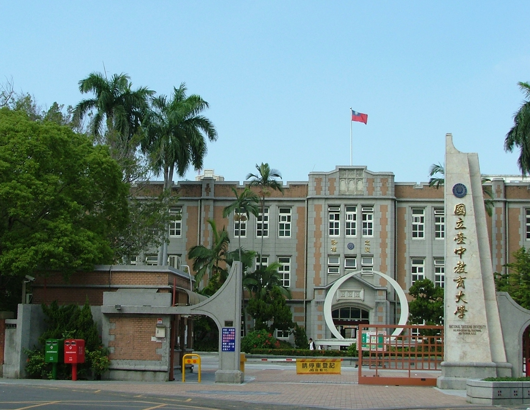 Administration Building of National Taichung University.